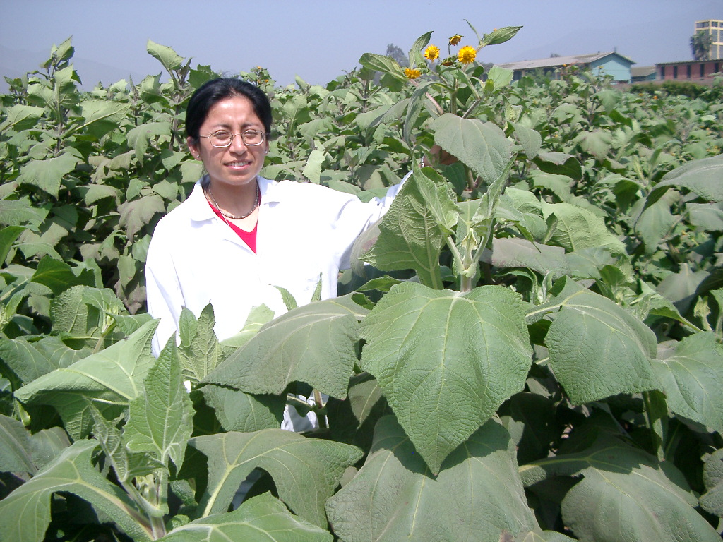 A fully grown yacon plant at Lima, Peru.